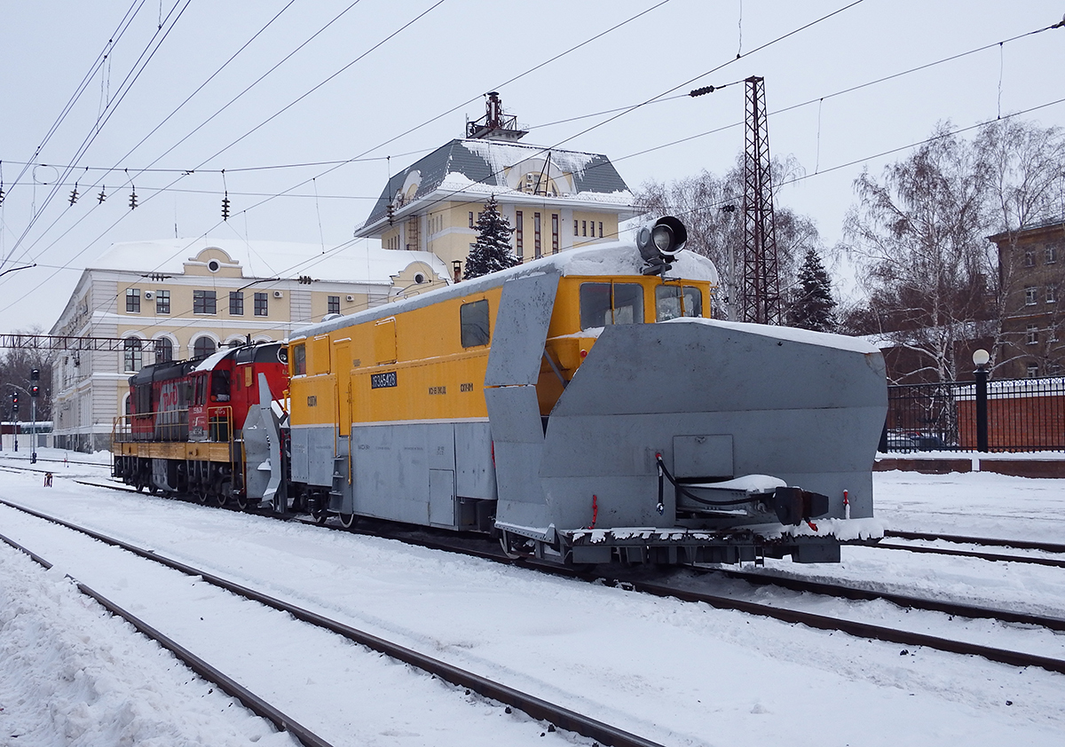 Railway snow blower SDPM-1542 with diesel locomotive ChME3-3648